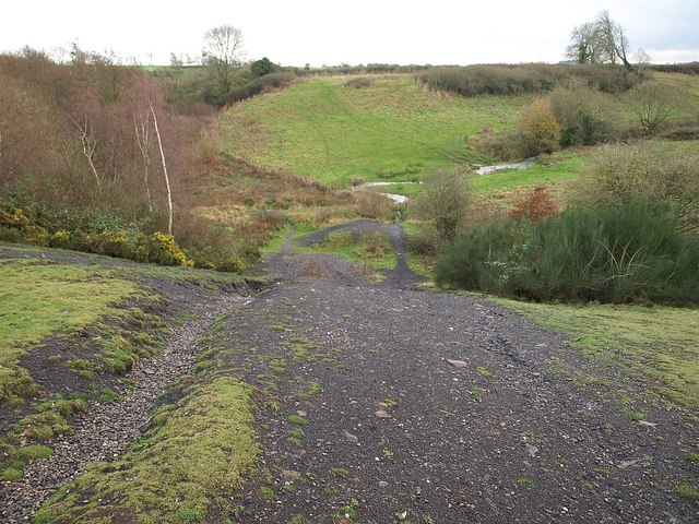 Coal tip in Waterside valley. A reverse view of 1601770, looking down from near the summit of the black shale waste heap. The stream passes directly underneath the tip.